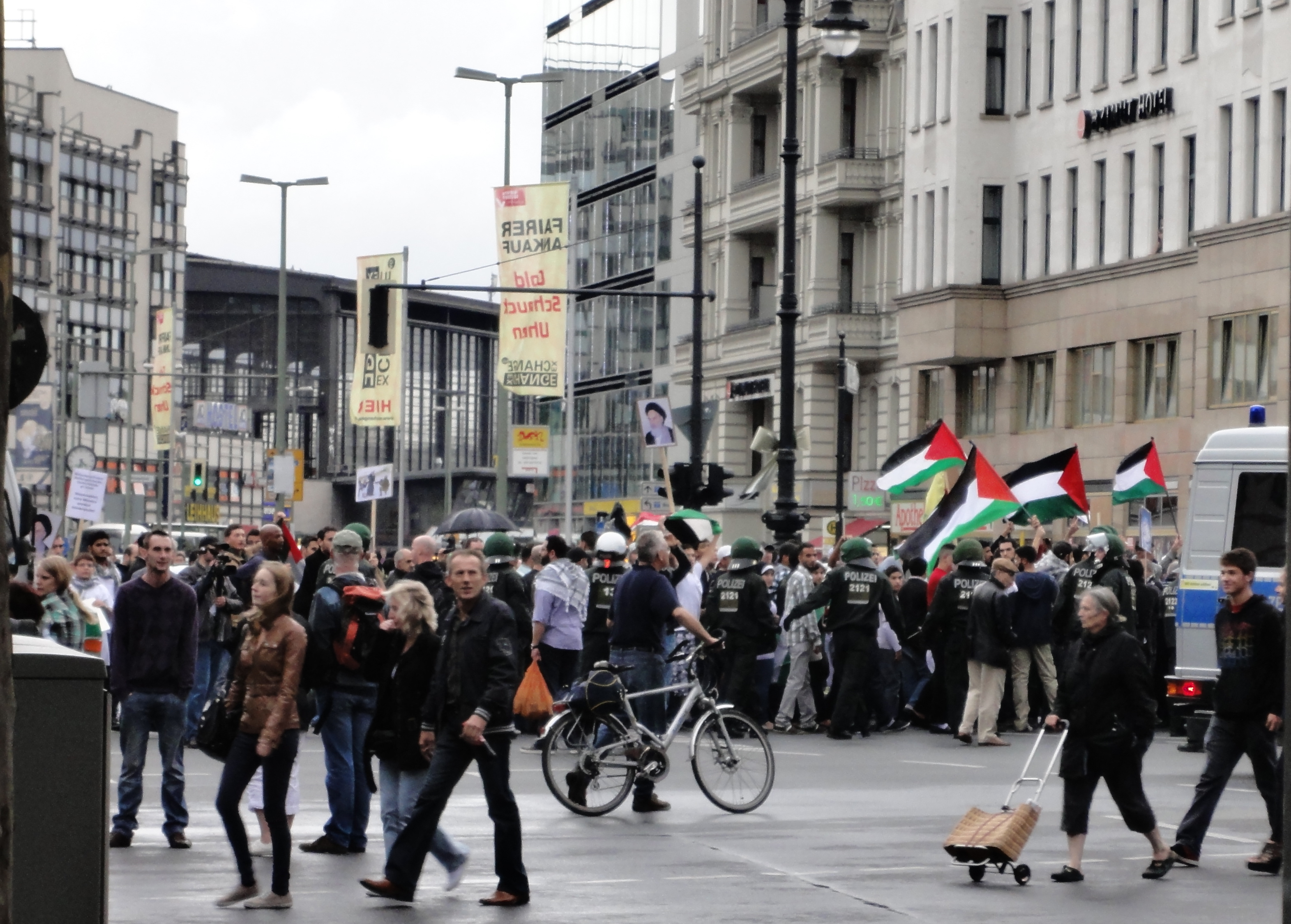 Quds-Day demonstration in Berlin: islamists, nazis and anti-imperialists hand in hand